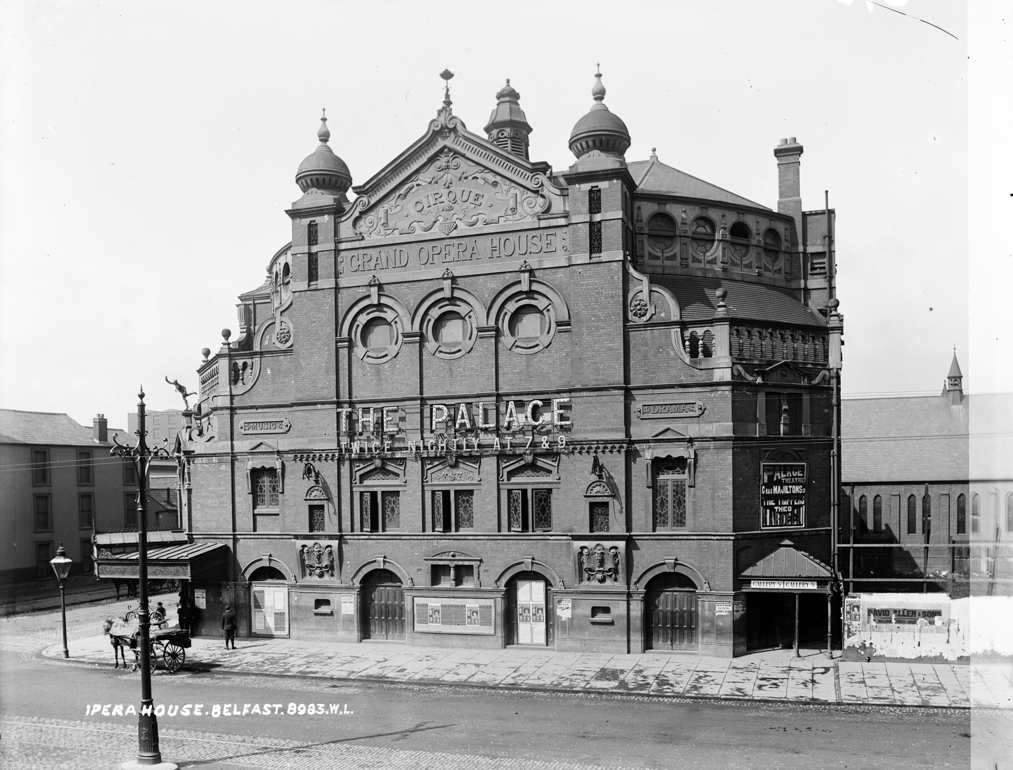 The marvellous Cirque and Grand Opera House in Belfast. There's no way a date for this one will defeat us - a poster above the Gallery entrance says "Palace Theatre. Chas Majiltons Co. The Trippers. Tho Hardeen". So when did that combination of performers show the theatre-going people of Belfast a good time?? Date: Circa 1909?? (post-1905, and no later than 1909) NLI Ref.: L_ROY_08983